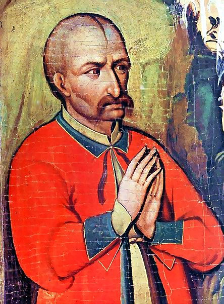 An Icon from Pyriatyn (Ukraine) with a portrait of Leontiy Svichka, regimentar of Cossack Lubny regiment